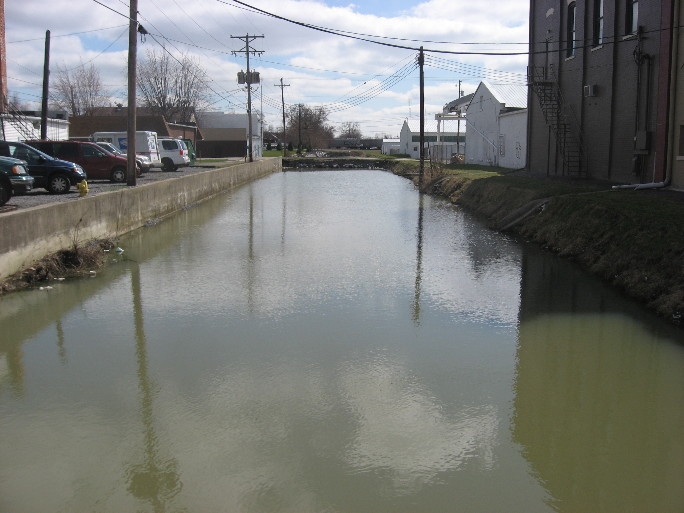 Water in the bed of the former Miami and Erie Canal in downtown Delphos, Ohio, United States; picture is taken from Second Street looking toward First Street. The canal lies along the border between Allen and Van Wert counties.